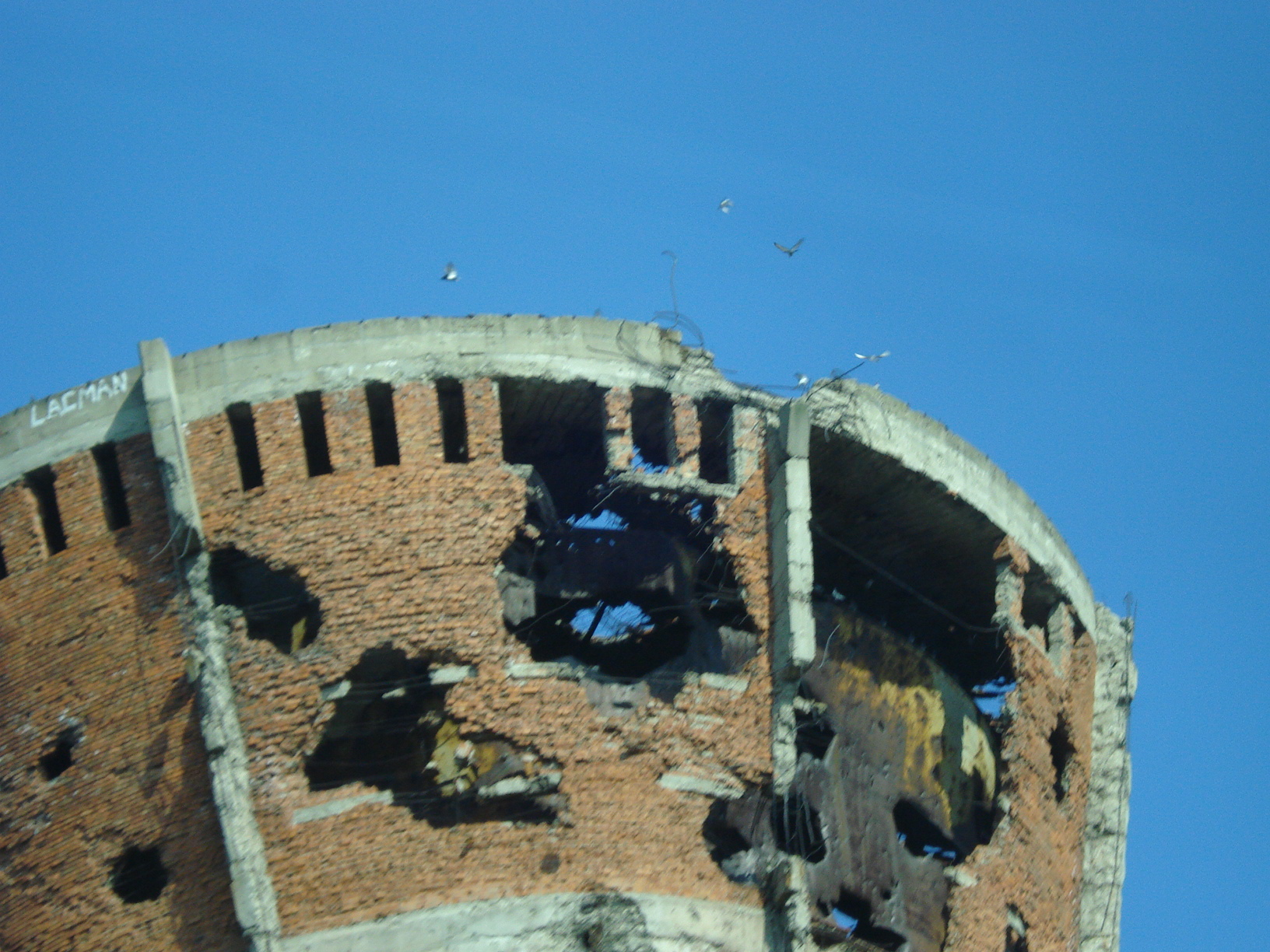 A chilling scene of birds flying over the Vukovar water tower, heavily destroyed by the JNA in the Croatian War of Independence (1991-1995).